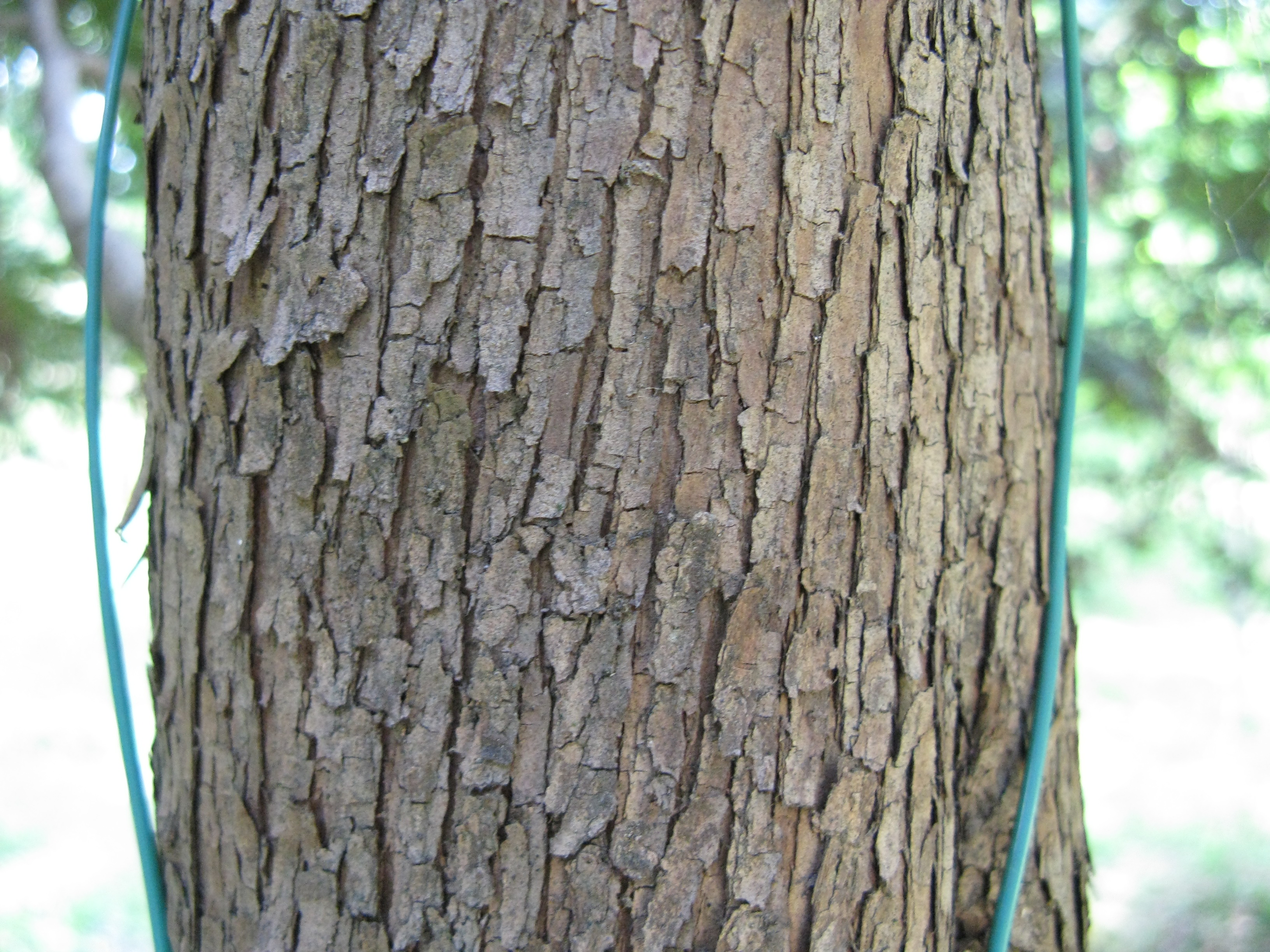 Thujopsis dolabrata Place:Botanical Gardens Faculty of Science Osaka City University,Osaka,Japan